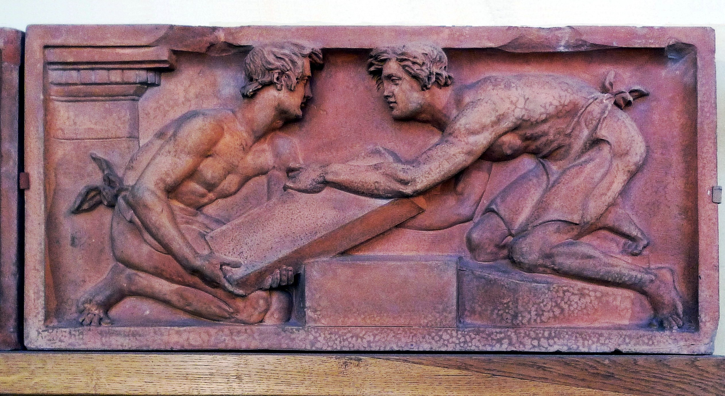 "Berliner Bauakademie" (destroyed after World War II), detail of the facade. Design: Karl Friedrich Schinkel in about 1835. Present location: "Friedrichswerdersche Kirche", today used as "Schinkelmuseum", in Berlin-Mitte.